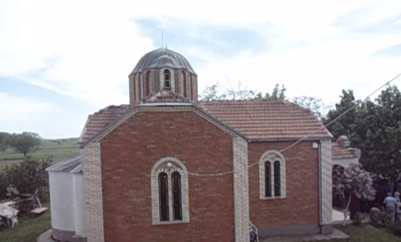 The church in Pashino Ruvci